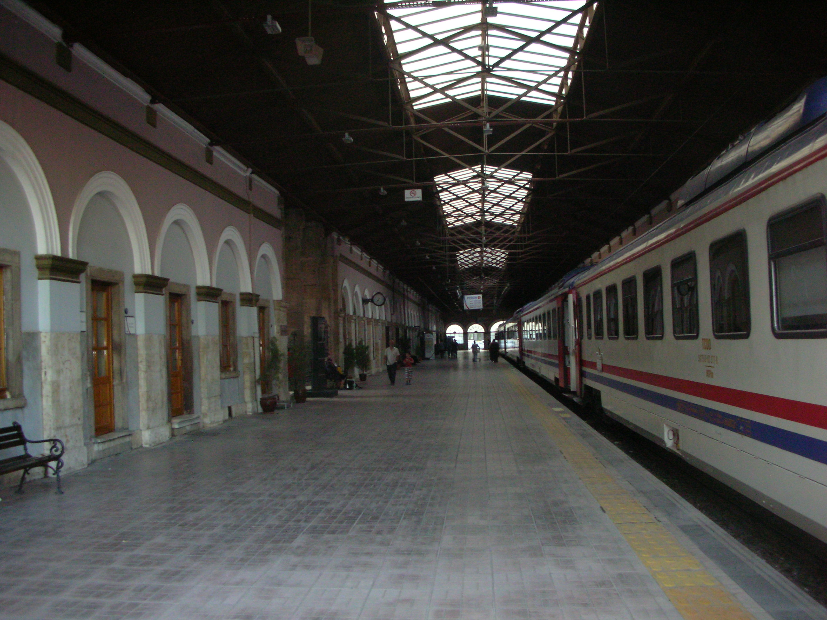 View of Alsancak Railway Station from inside on May 15th, 2015.